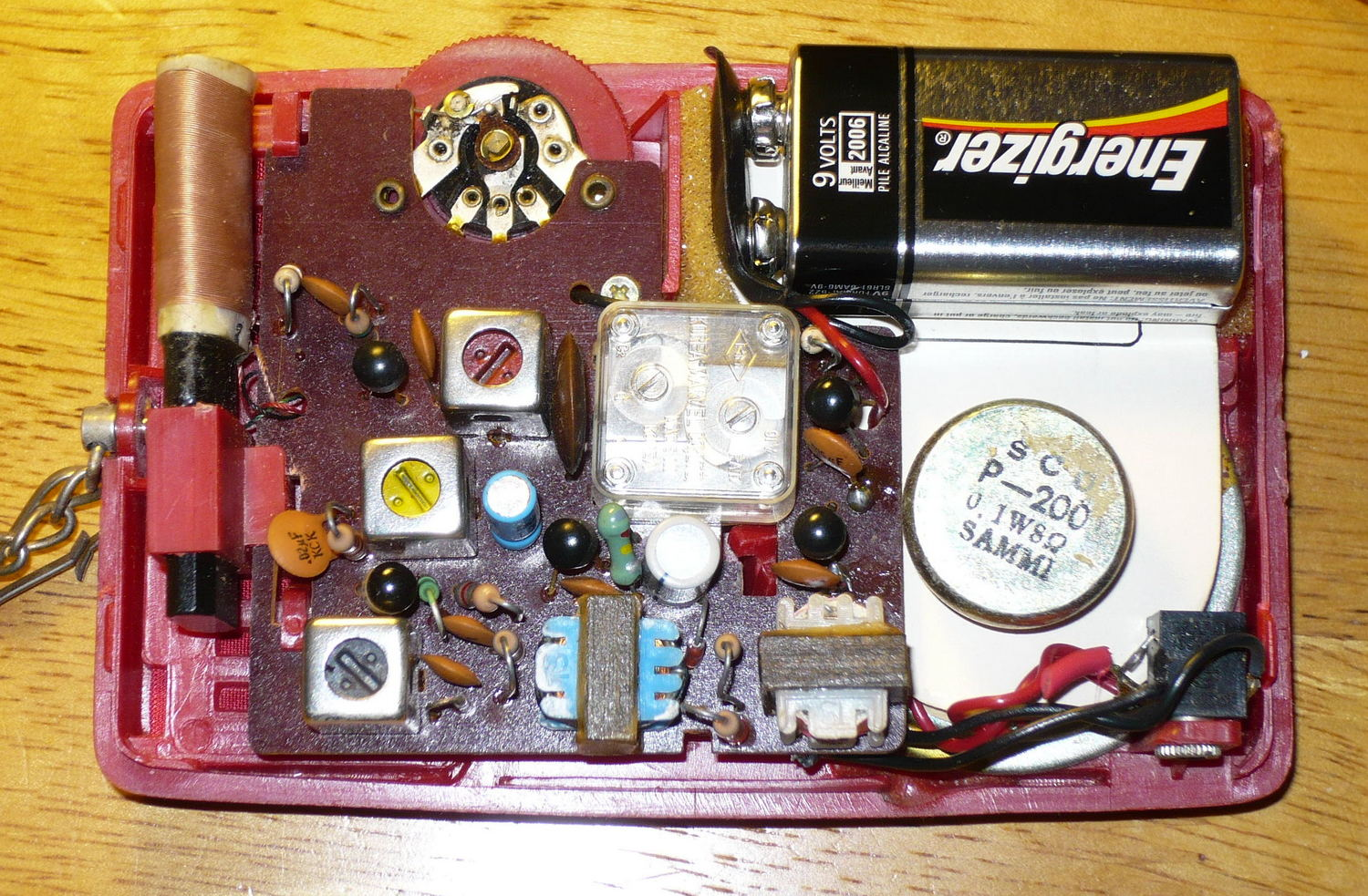 A cheap transistor radio, a simple type of AM portable radio, with its back open to show parts. It uses a simple five-transistor superheterodyne circuit. Transistor radios are the most popular electronic communications devices in history, with billions manufactured in the 1960s and 1970s.